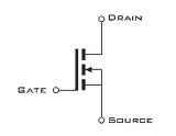 Symbol for E-MOSFET